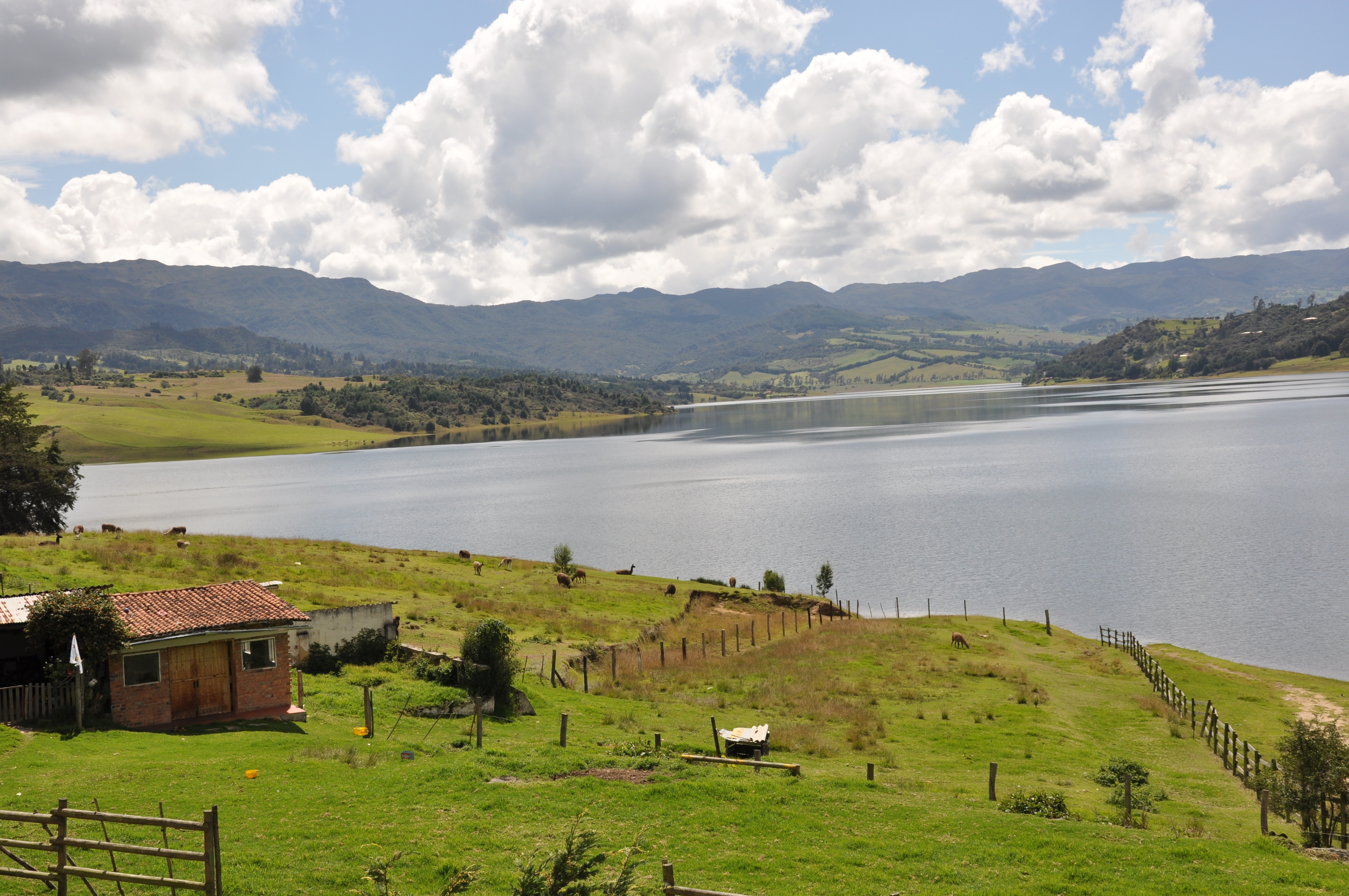 View of the lake from the restaurant. - 2010 046